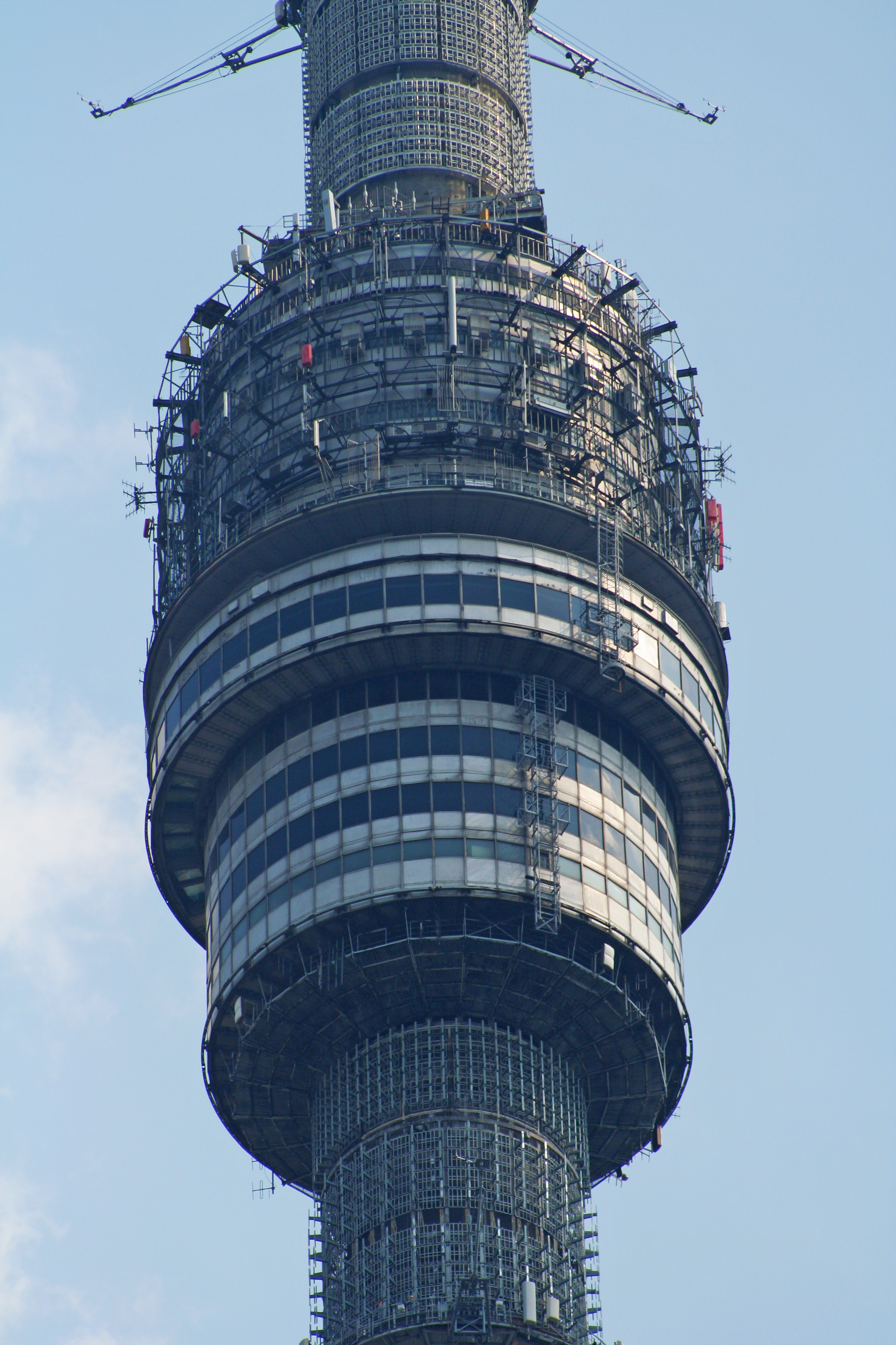 The Ostankino TV tower in Moscow. Detailed views.